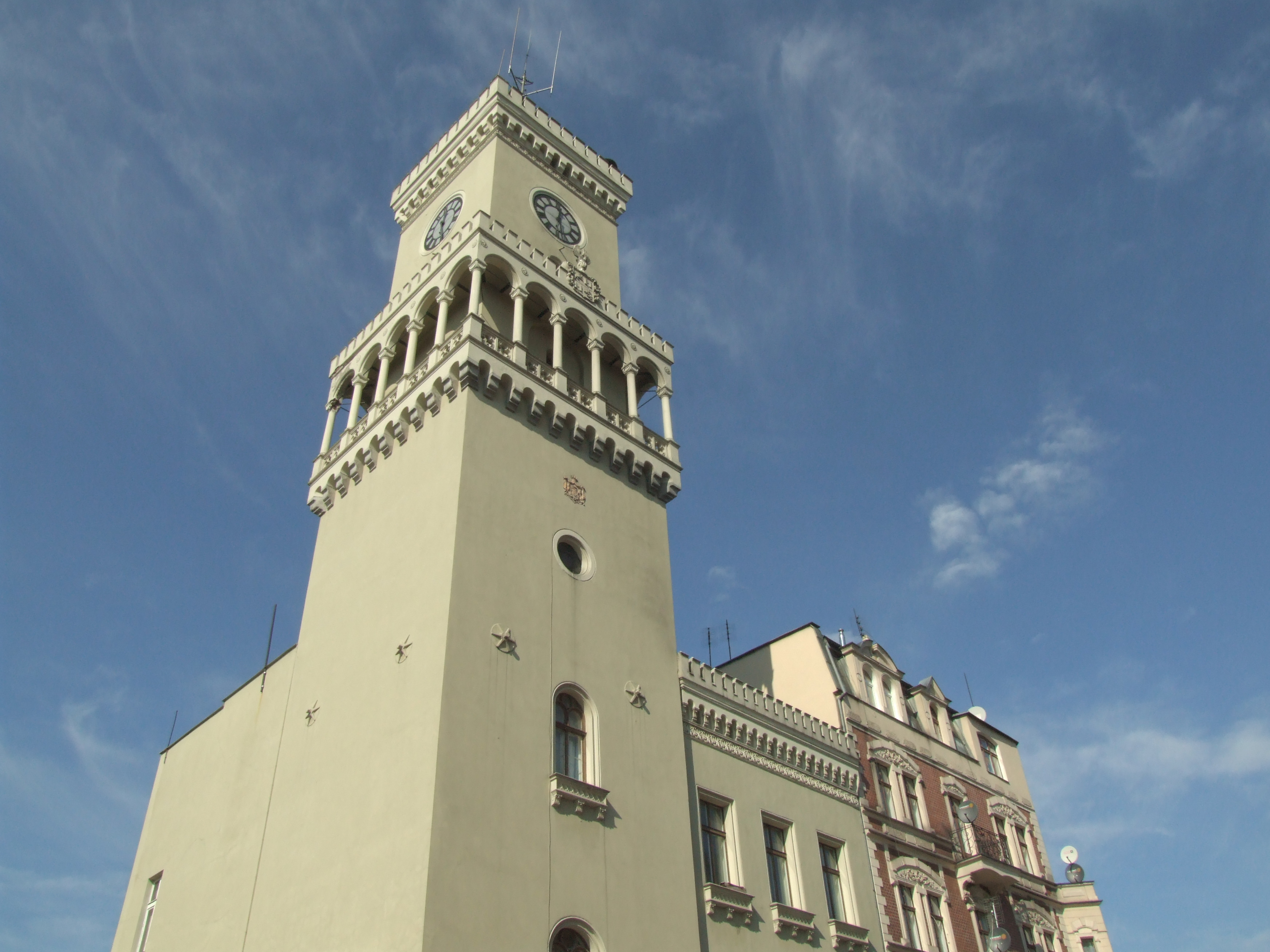 Town Hall in Żagań (Sagan)